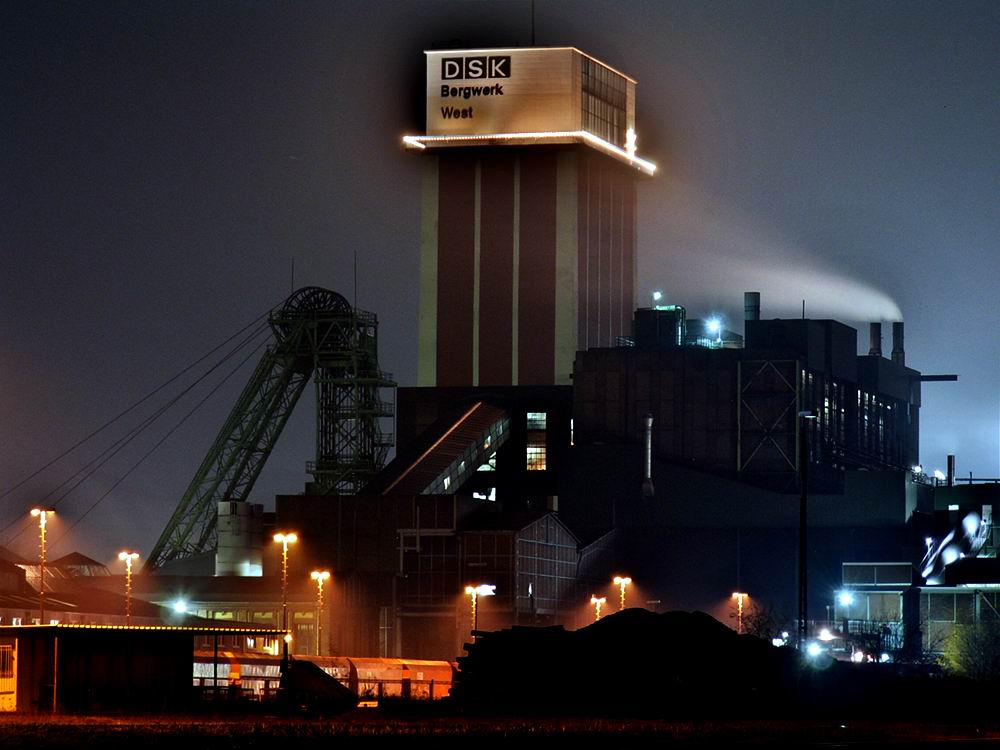 Pit in the night